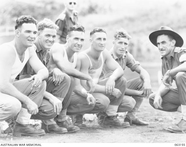 Photo of elite, well known Australian rules footballer players at an Army sports meeting in Papua New Guinea during World War 2